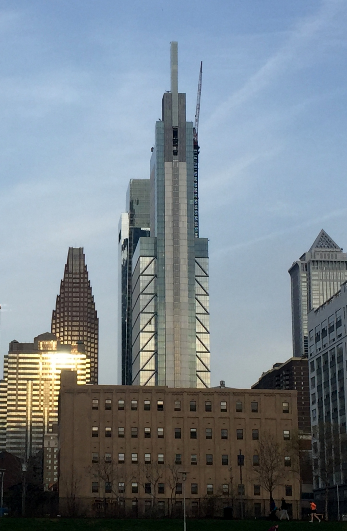 Comcast Technology Center